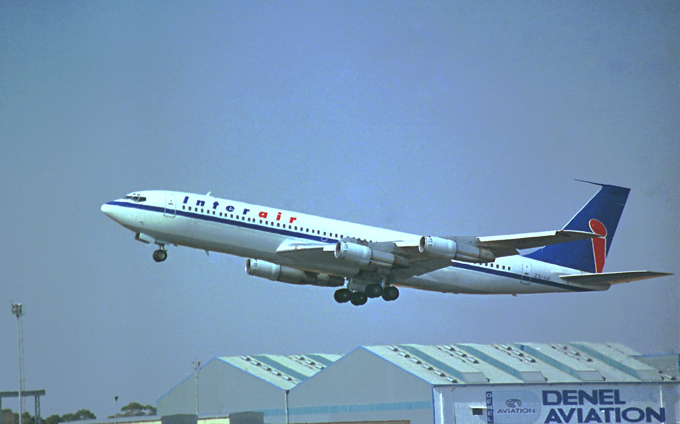 Interair B707-323C ZS-IJI (2)